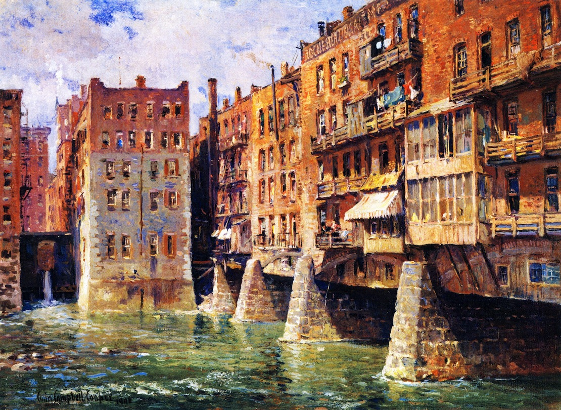 Main Street Bridge, Rochester, Colin Campbell Cooper, oil on canvas, 26.25 x 36 in, Memorial Art Gallery (Rochester, New York)